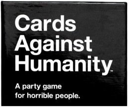 cards against humanity